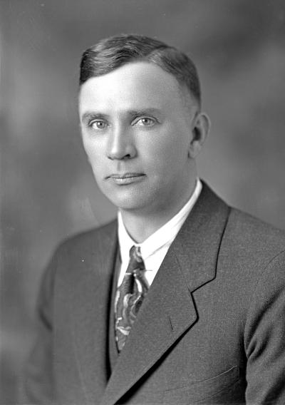 Representative Ed Davis